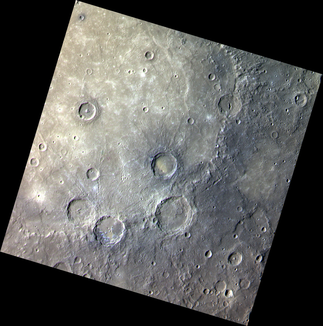 Southeastern Rembrandt crater on Mercury. Zmija Facula is at center, Bellini crater is at left, and Castiglione crater is in lower left. Approximate color representation combining three images acquired by MESSENGER Wide Angle Camera (EW0236874309I, EW0236874313F, EW0236874329G) with I (996.2 nm), G (748.7 nm), and F (433.2 nm) filters. Combined in GIMP software as RGB (Red-Green-Blue), and then rotated so that north is up. Statistics for I image: Emission Angle: 9.9 Incidence Angle: 65.2 Latitude: -37.0 Longitude: 92.2 Phase Angle: 55.3